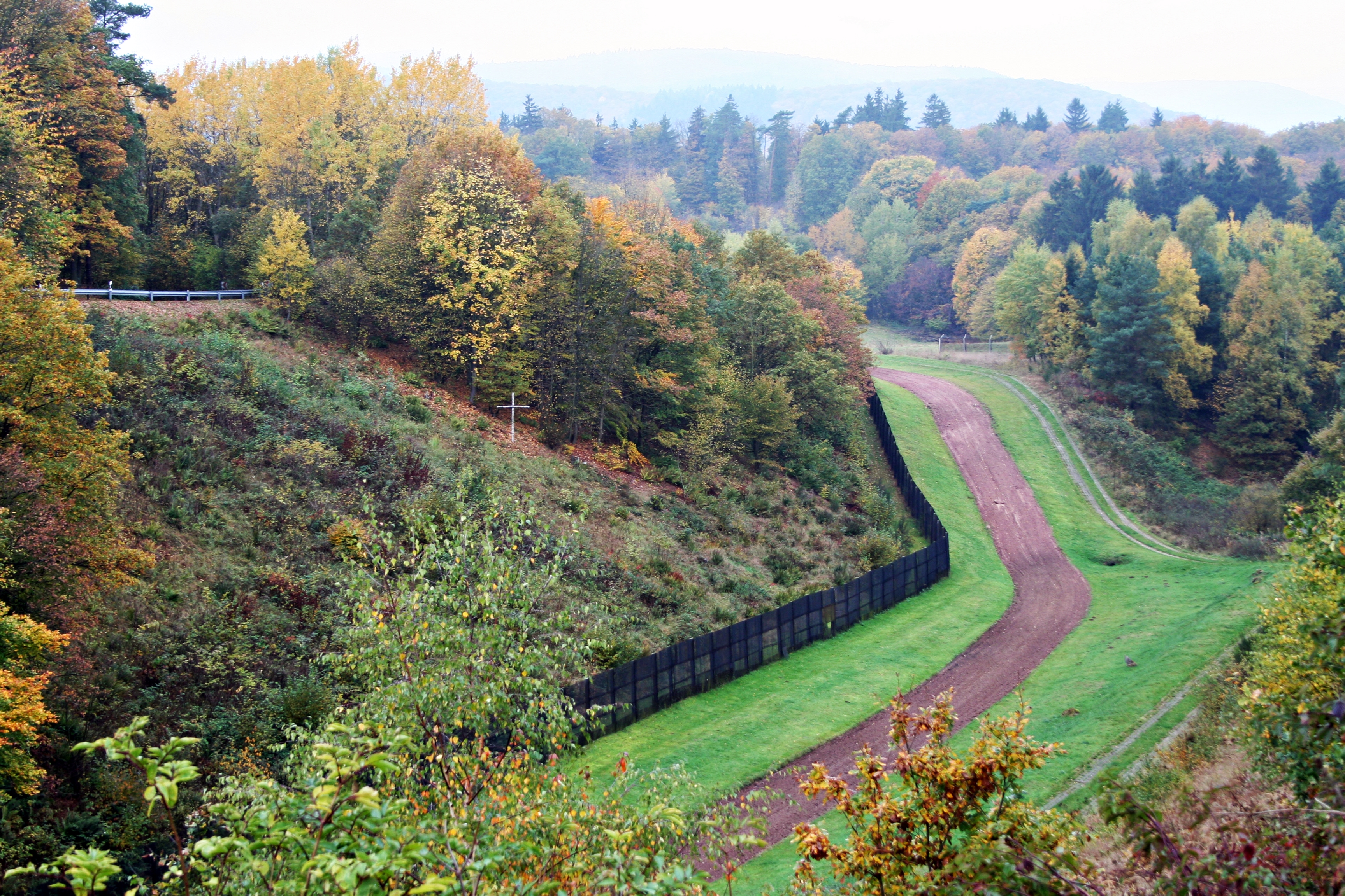 The picture shows the "Inner-German Border" between the States of Thuringia (right) and Hesse (left). A preserved part of the former border will serve as the grounds for the border museum of Schifflersgrund (near Sooden-Allendorf). The border here includes SM-70 mines (mounted on the single-breasted metal lattice fence), a bare strip of ground. The actual border is above the slope along the guardrails. The white cross on the slope marks the location where the 34-year-old worker Heinz-Josef Große was shot for attempting to defect ("republic-fleeing") on 29 March 1982. Große was a civilian who had worked on the border. During a gap in the border patrols, Große drove to a place where he could position the shovel of his backhoe loader over the fence. He climbed the arm, jumped over the fence and tried to climb the hill to the border. Observation towers noted his escape. Following warning shots, he was shot fatally in the back. The funeral occurred in his home municipality of Thalwenden. His obituary was censored of any possible information about the location or cause of his death.